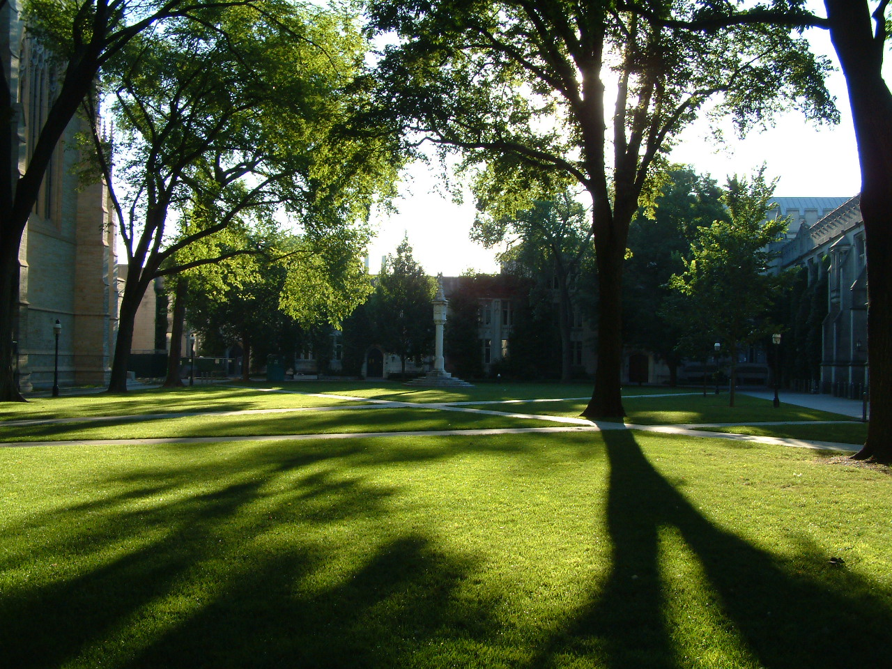 McCosh Courtyard; Chapel at left; Dickinson Hall in the background